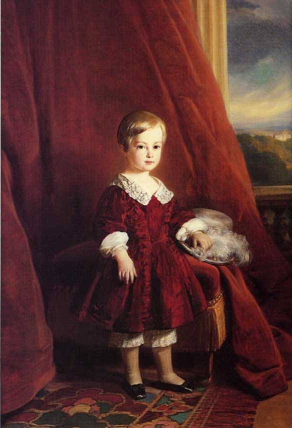 ==Painting of the Count of Eu (born 1847), as a child.